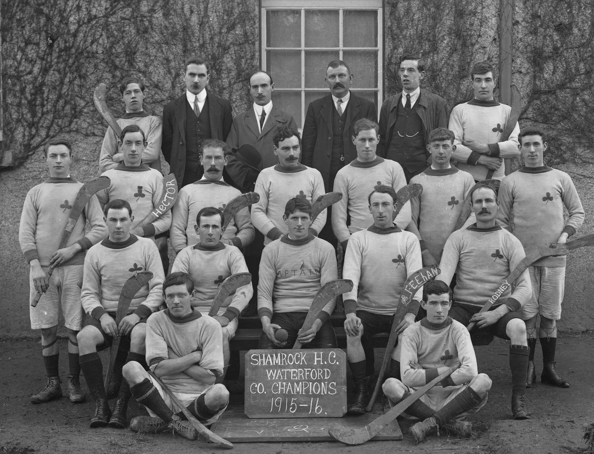 Shamrock Hurling Club team, Waterford Co. Champions, 1915-16. The Ferrybank Shamrocks were: T. McElroy (goal), J. Norris, T. Morrissey, T. Henebry, T. Heffernan, W. Murphy, J. O’Meara, P. Freeman, W. Bell, J. Brett, M. Barron, M. O’Brien, P. Fitzpatrick, J. Treacy, P. Fitzpatrick.